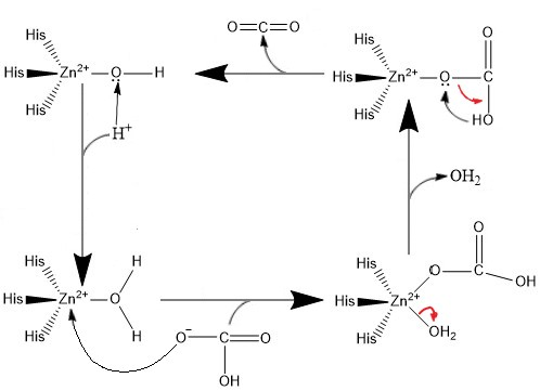 This image shows the cyclic mechanism for carbonic anhydrase.